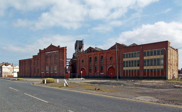 The Grimsby Ice Company Building The Grimsby Ice Company was founded in the 19th century. Its purpose was to bring back natural ice from Norway in order to keep the catch of fish fresh. The Ice House was built in 1900 and closed in 1990. The red brick building consisted of two factories separated by a passage. At its prime it produced 1,270 metric tons of ice every 24 hours. Water was taken from local bore holes and placed in moulds containing brine. When the ice was required conveyer belts took the three-hundred weight blocks to a crusher. The crushed ice was then taken by another conveyer belt to the quay side where it was dropped into the fish room of the trawlers via a chute. At a later stage cement mixers were converted to deliver the ice.